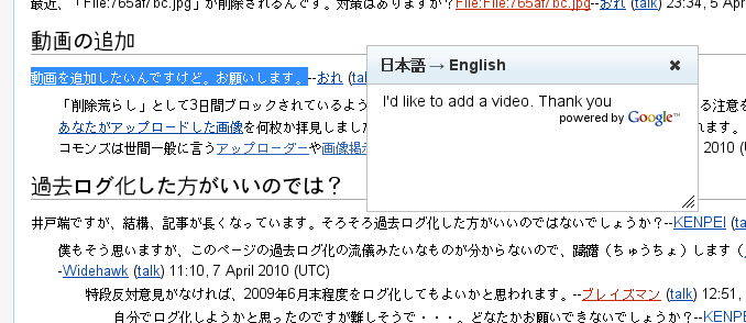 Screenshot of the GoogleTranslate gadget in action.